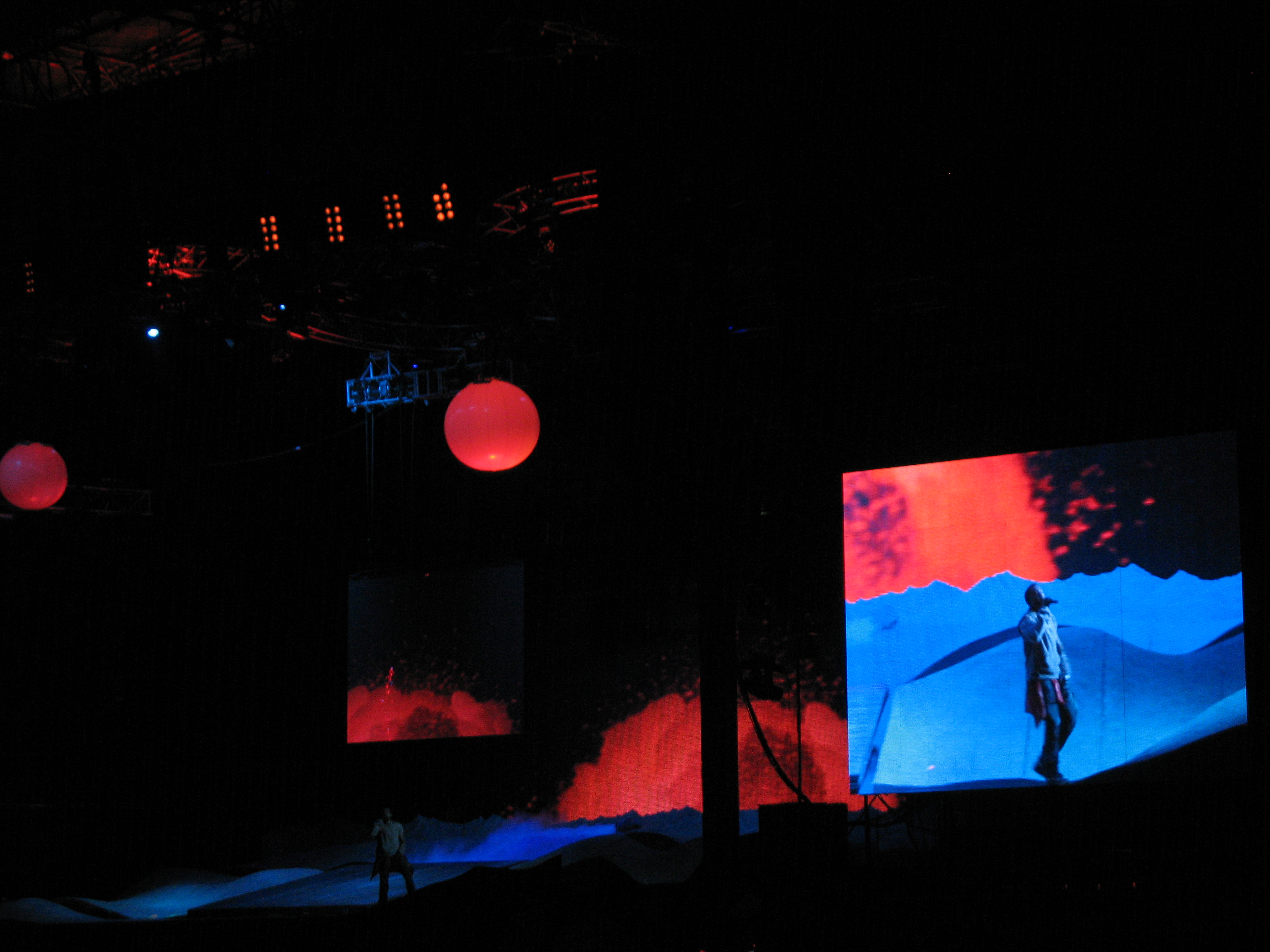 Kanye West performing at the Bonnaroo Music and Arts Festival in Manchester, Tennessee on June 14, 2008 during the Glow in the Dark Tour.